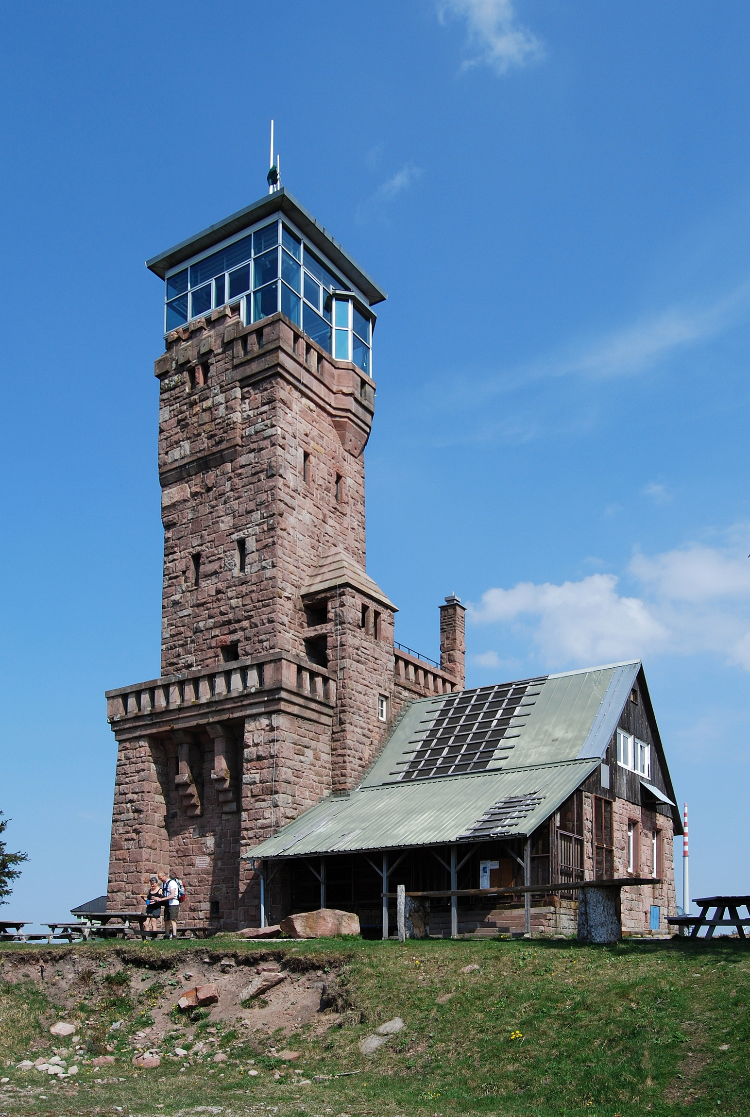 The Hornisgrinde tower (look-out) on the Hornisgrinde, Northern Black Forest.